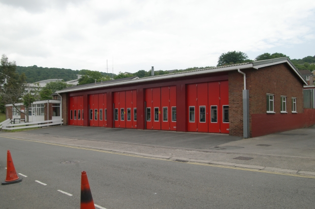 Pontypridd Fire Station Pontypridd Fire Station, Oxford Street, Treforest, Pontypridd - part of South Wales Fire & Rescue Service